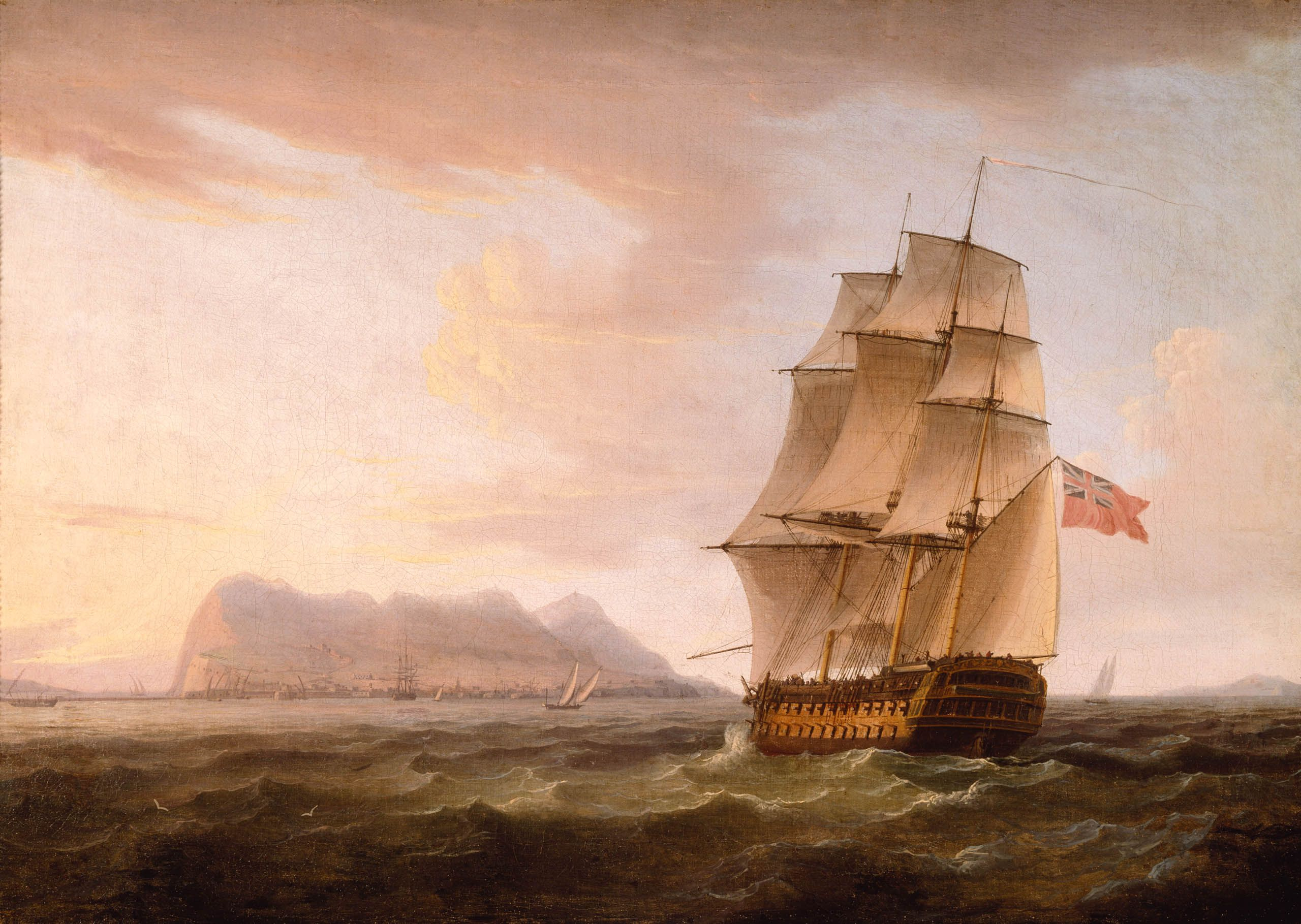 A British Man of War before the Rock of Gibraltar.